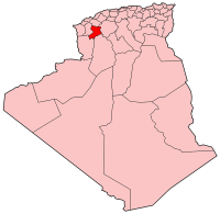 Map of Algeria showing Saida province.